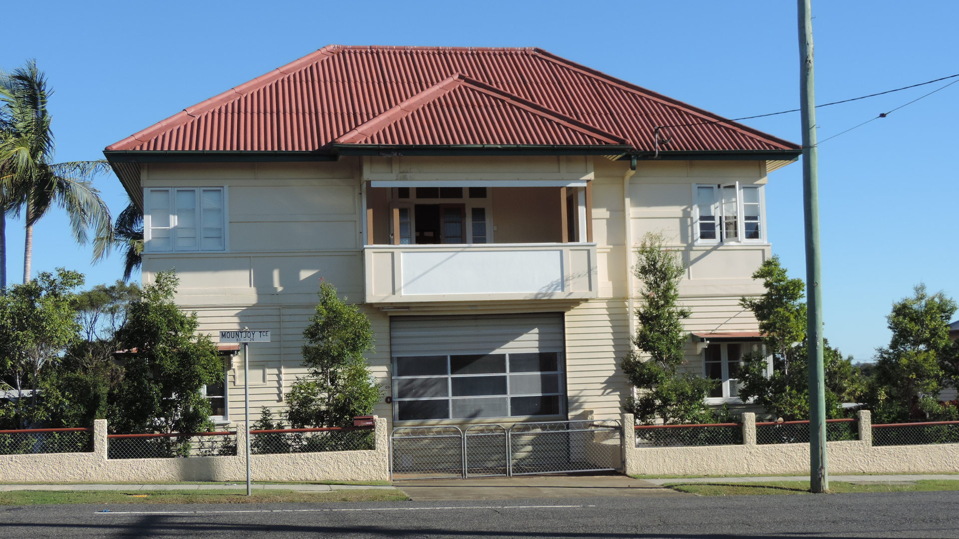 Foundation stone, Wynnum Ambulance Station, 2014